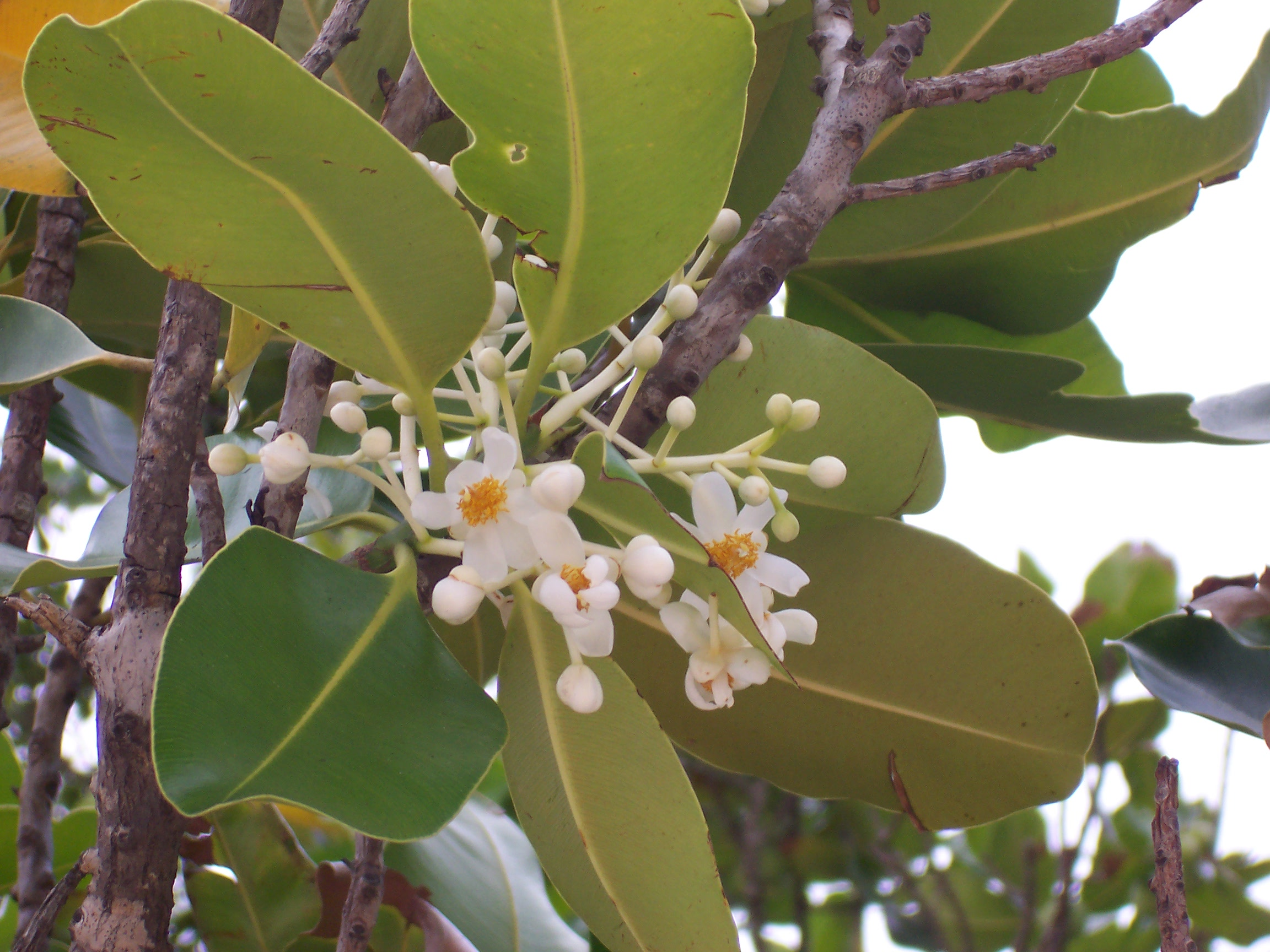 Takamaka flowers (Callophyllum inophyllum) Photo : B.navez - AUG 2004 - Seychelles (Mahé)